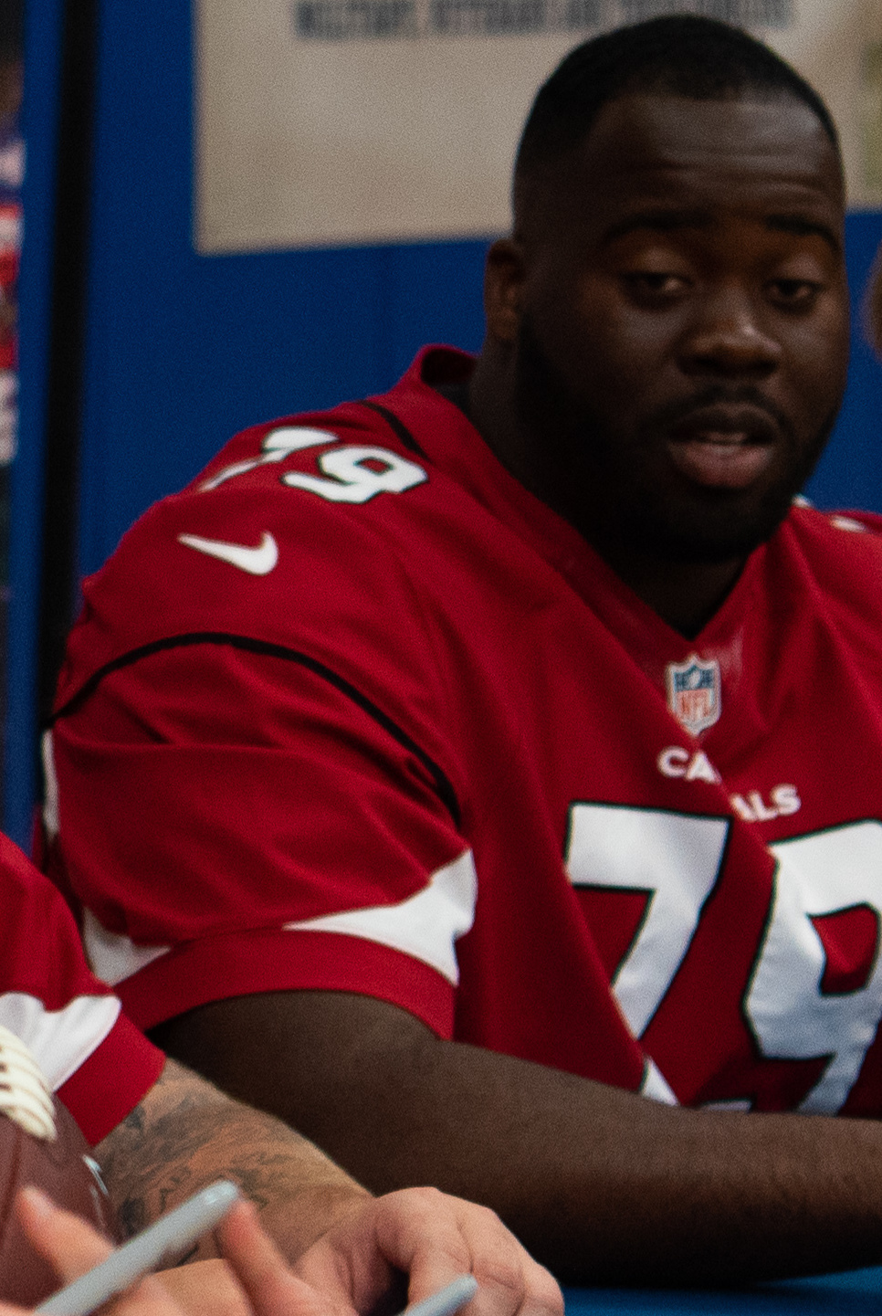 Justin Pugh, Arizona Cardinal offensive lineman, signs a football for a boy during a meet-and- greet Nov. 6, 2018 at Luke Air Force Base, Ariz. Pugh interacted with Airmen and their families from across the base to show support for troops as part of the Cardinals Salute to Service campaign. (U.S. Air Force photo by Airman 1st Class Aspen Reid)